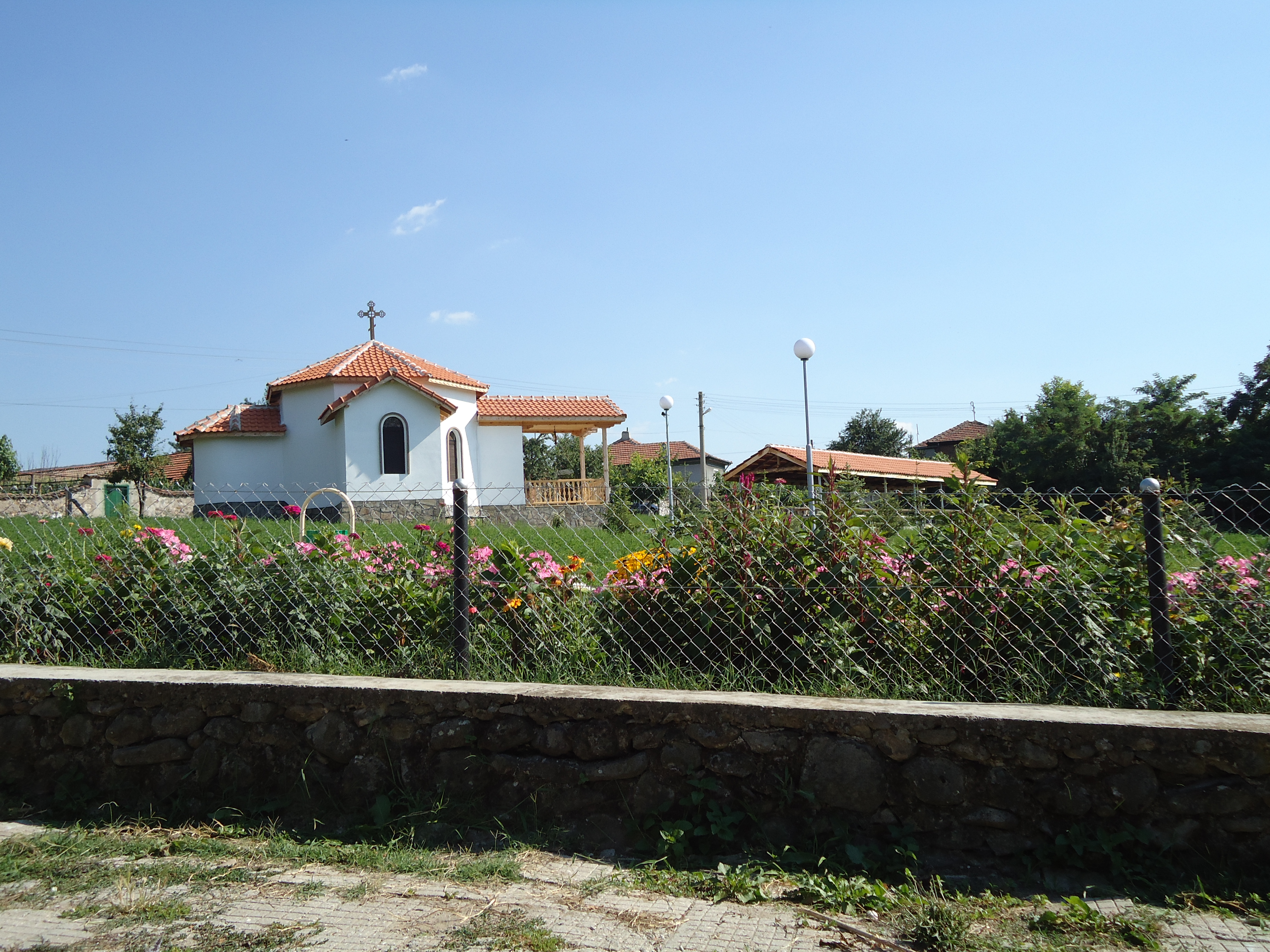 St. Georges Chapel, Iskra, Parvomay, Plovdiv District.